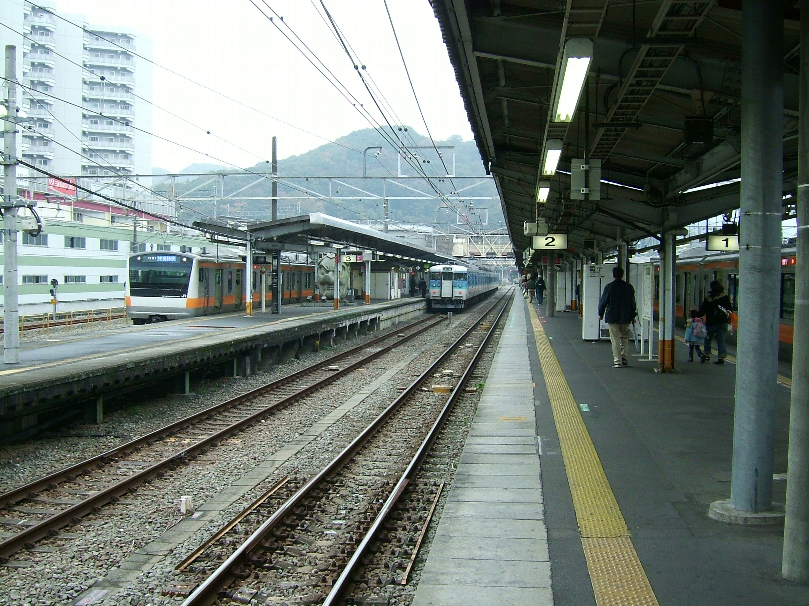 Takao Station platform (East Japan Railway Chūō Main Line)